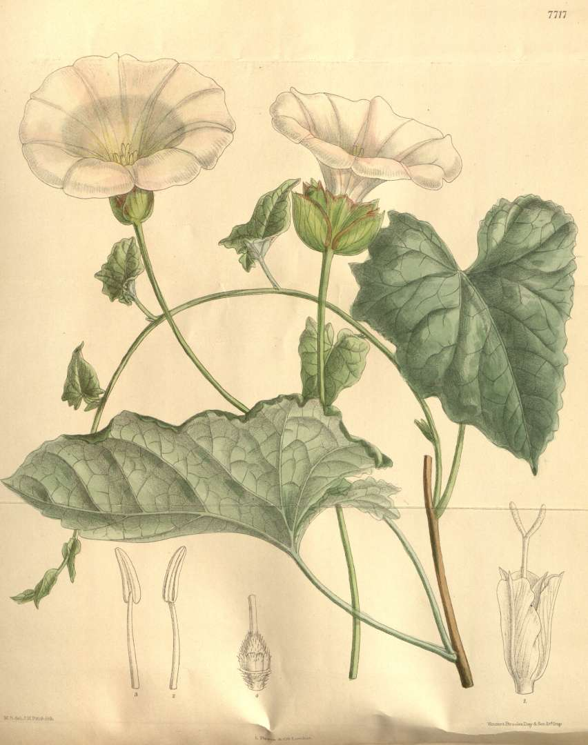 Calystegia macrostegia, as Convolvulus macrostegius